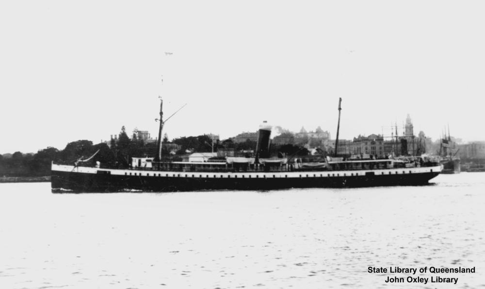 3,158 GRT passenger ship Alameda, built in 1883 by William Cramp & Sons of Philadelphia, PA for the Oceanic Steamship Co. The Alaska Steamship Co bought her in 1910. She was damaged by a fire at Seattle Pier in November 1931 and subsequently scrapped.